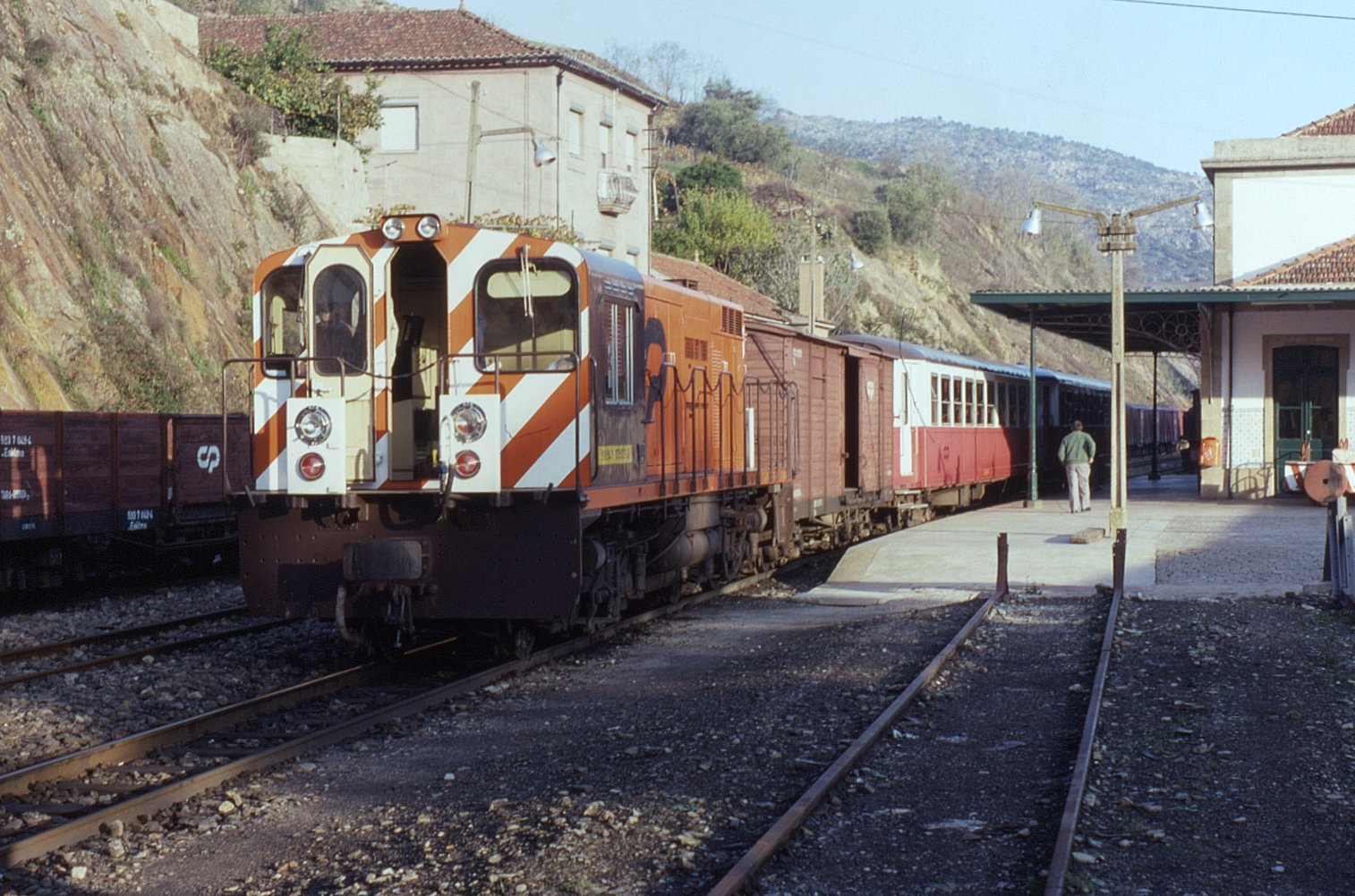 Metre gauge loco 9028 at Tua having arrived on train 6208, 14:50 Mirandela to Tua on 9 November 1993.